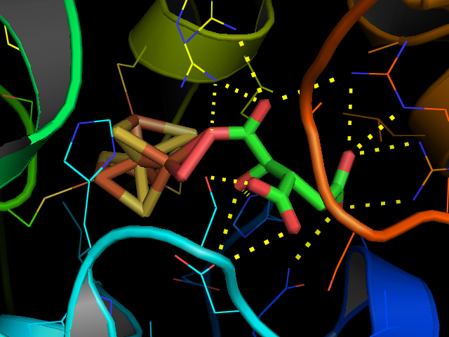 Pymol image created using data from PDB file 1C97